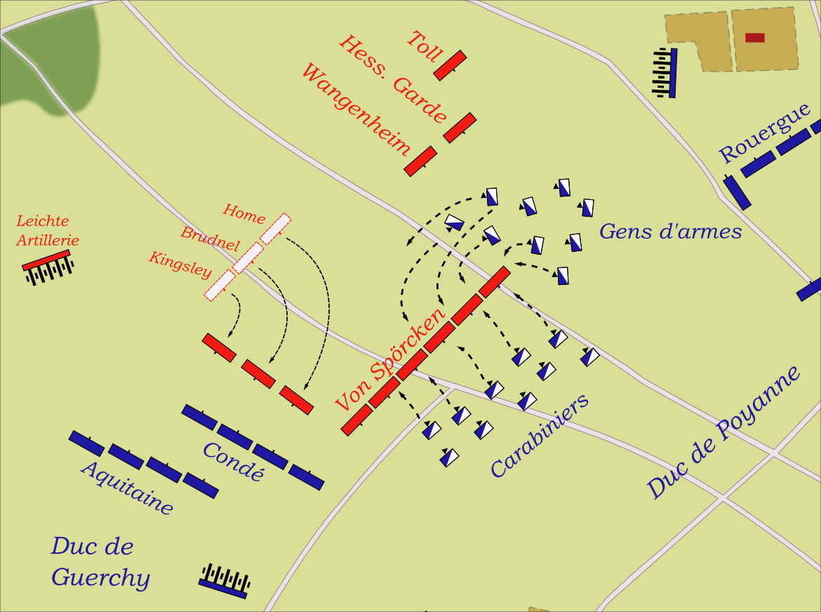 (German) Map showing the second French attempt to crash the Division von Spörken during the Battle of Minden 1759.